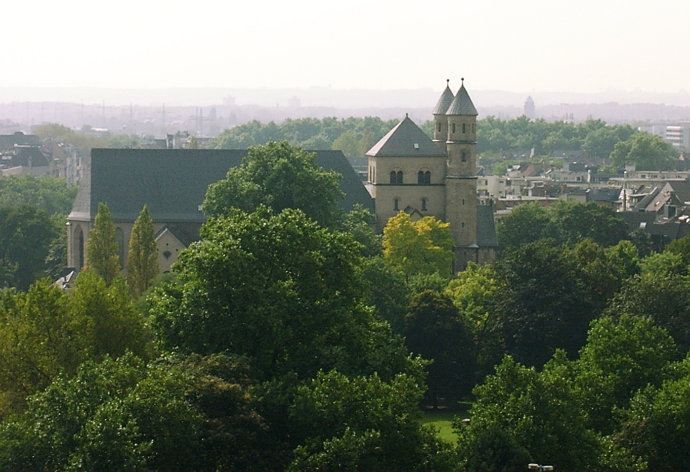 Romanesque church St Pantaleon in Cologne, as seen from top of Hotel Wasserturm